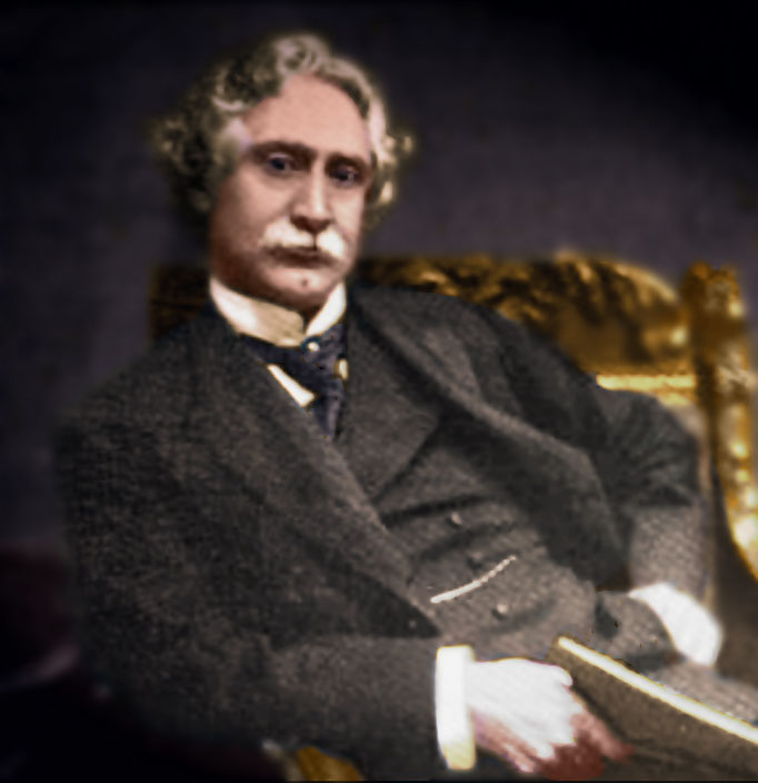 William Nelson Cromwell in 1904